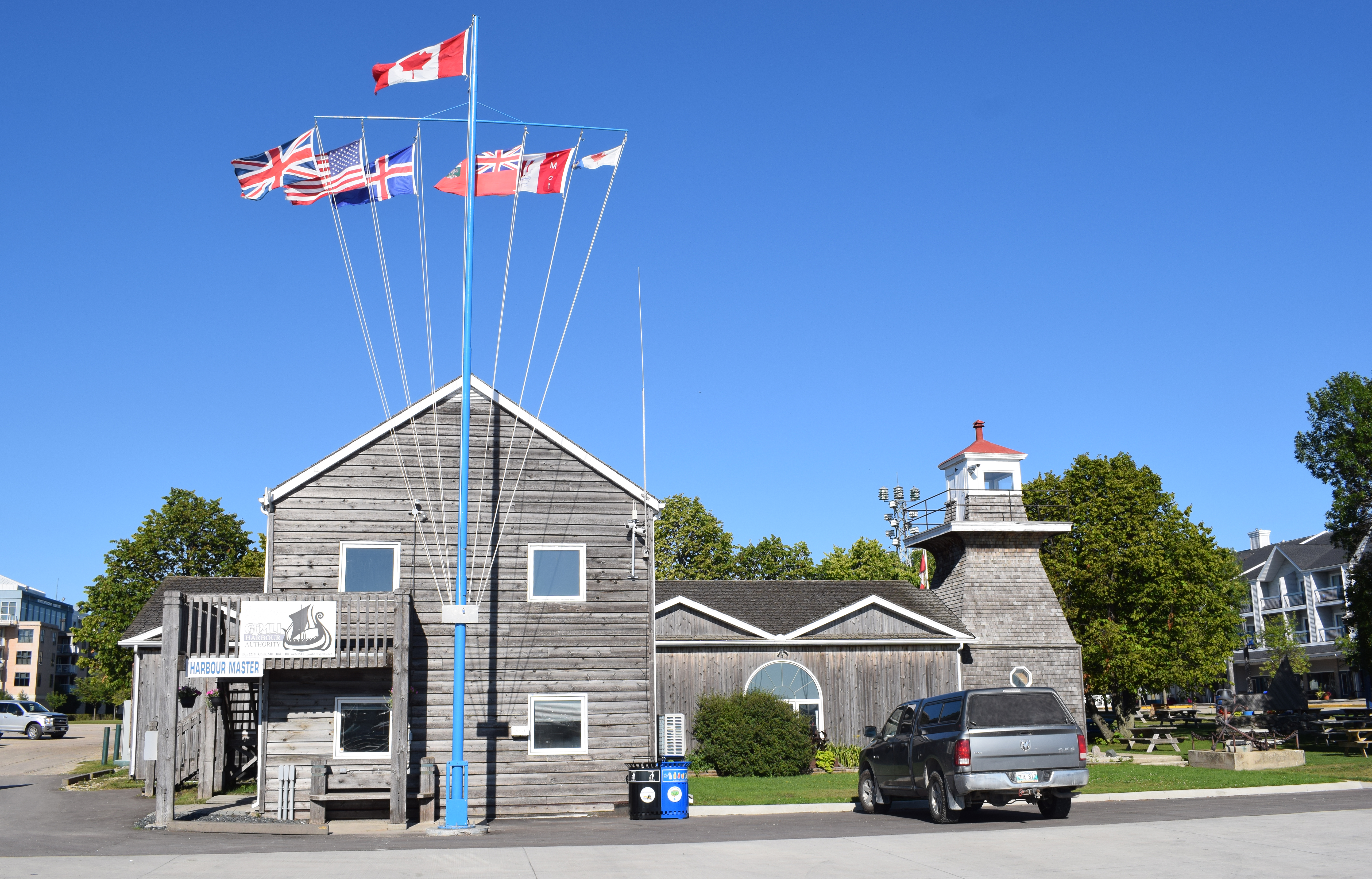 Gimli Harbour Masters and Lighthouse on the right. The lighthouse and building was constructed in 1910 and now serve as the Harbour Master's, museum, and tourist information site.